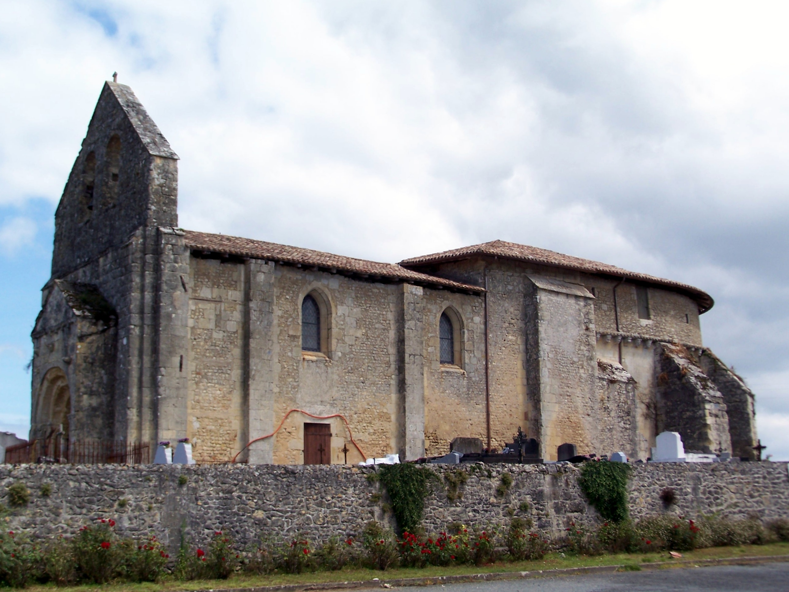 Our Lady's church of Doulezon (Gironde, France)